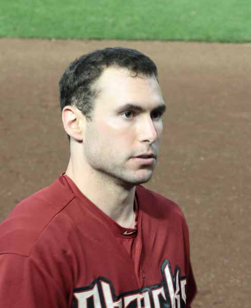 Paul Goldschnidt